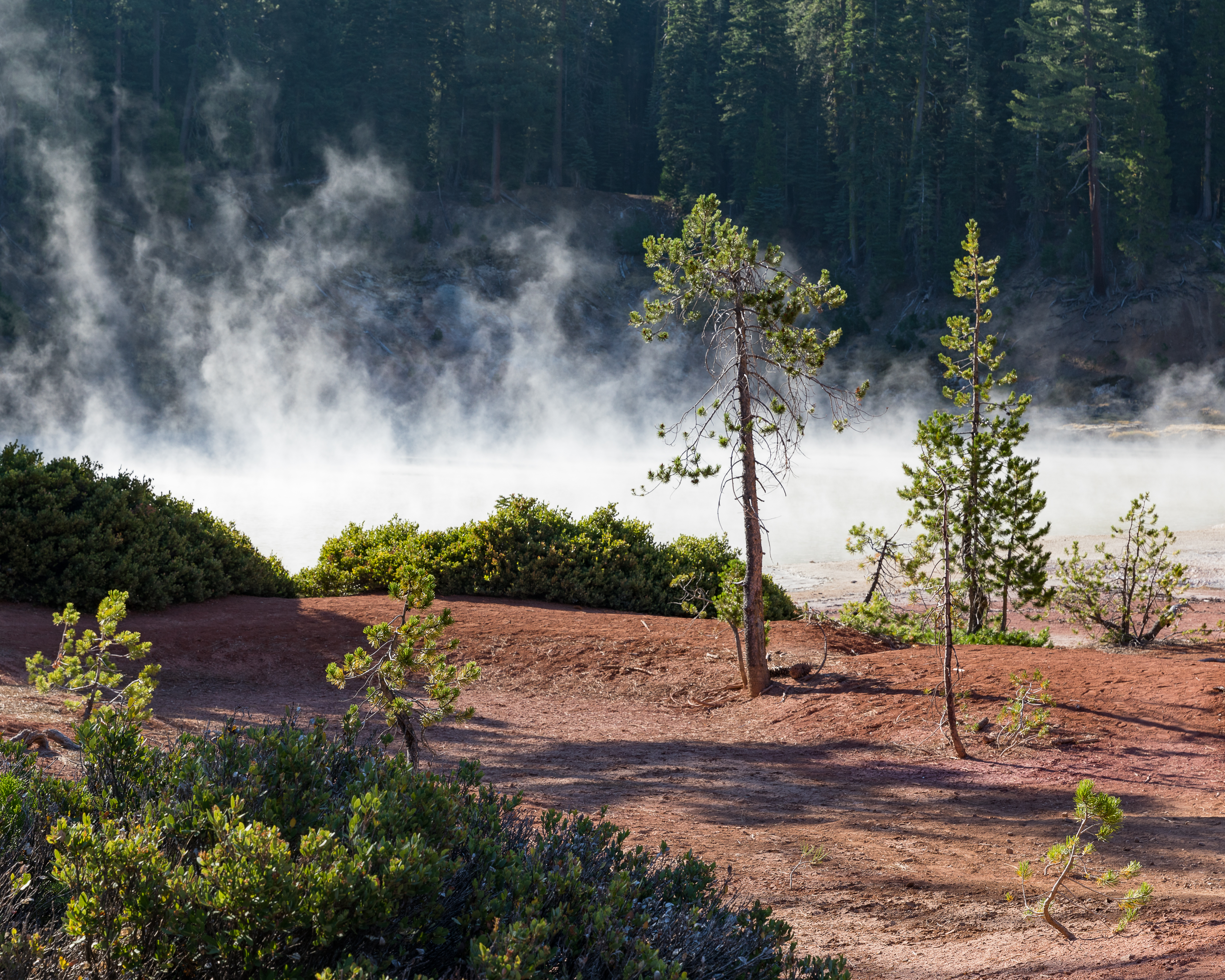 Boiling Springs Lake, Lassen Volcanic National Park, in July 2020